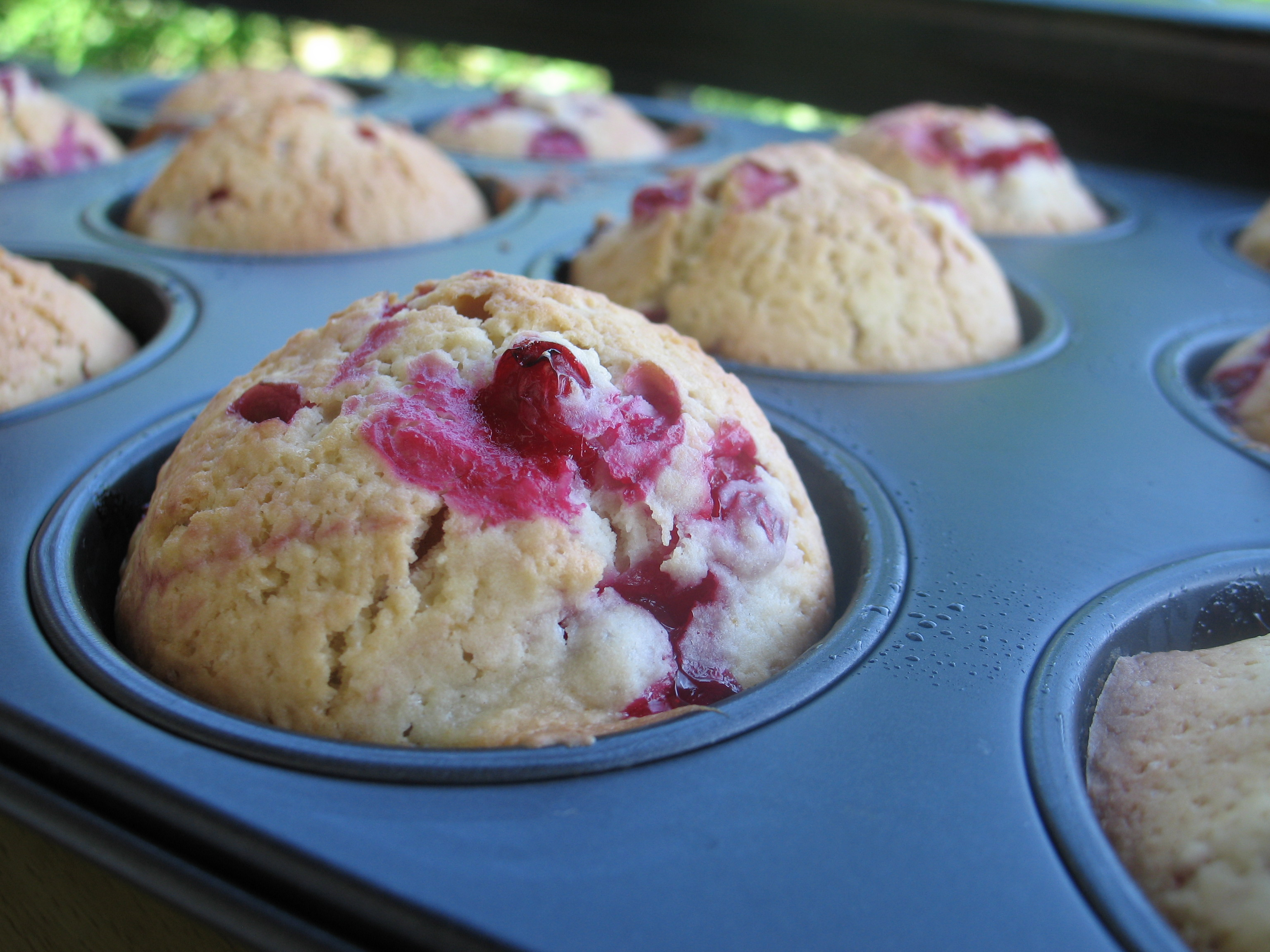 Gooseberries muffins